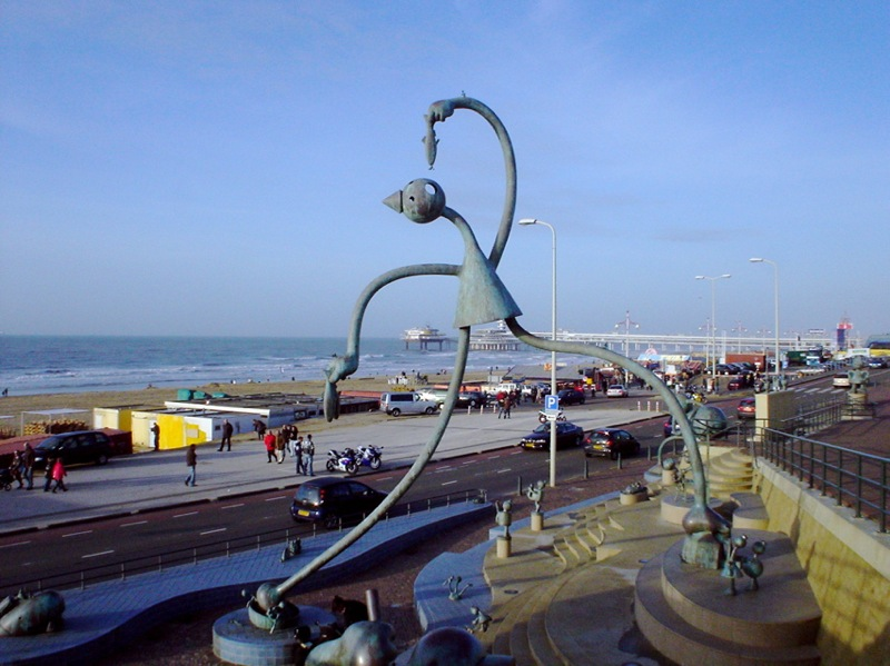 10 March 2007 There are a bunch of awesome statues depicting various fairy-tales at Scheveningen